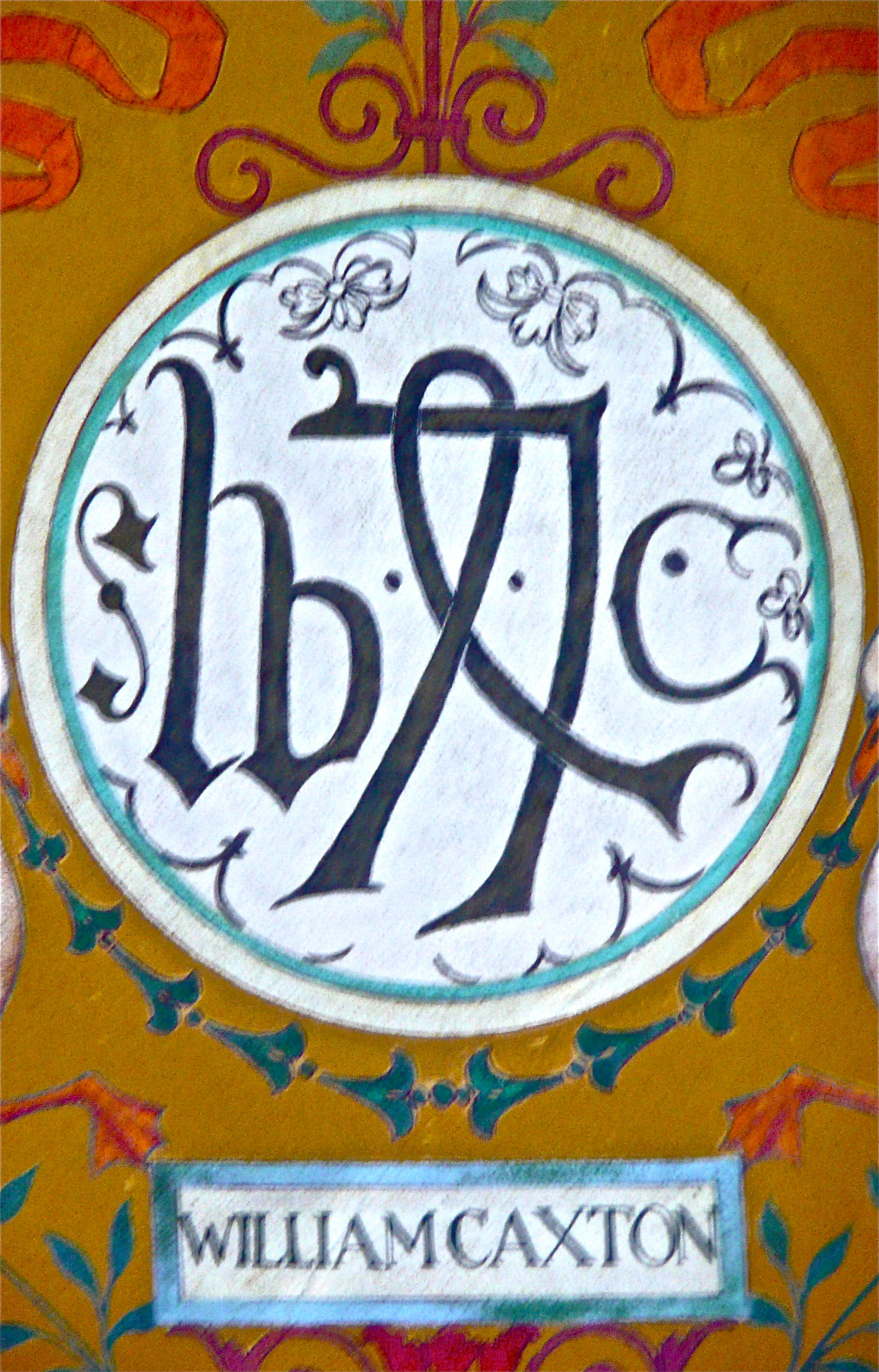 William Caxton printer's device. From the ceiling of the Great Hall of the Library of Congress. Photo taken at the LOC 2012 Flickr Photo Meetup